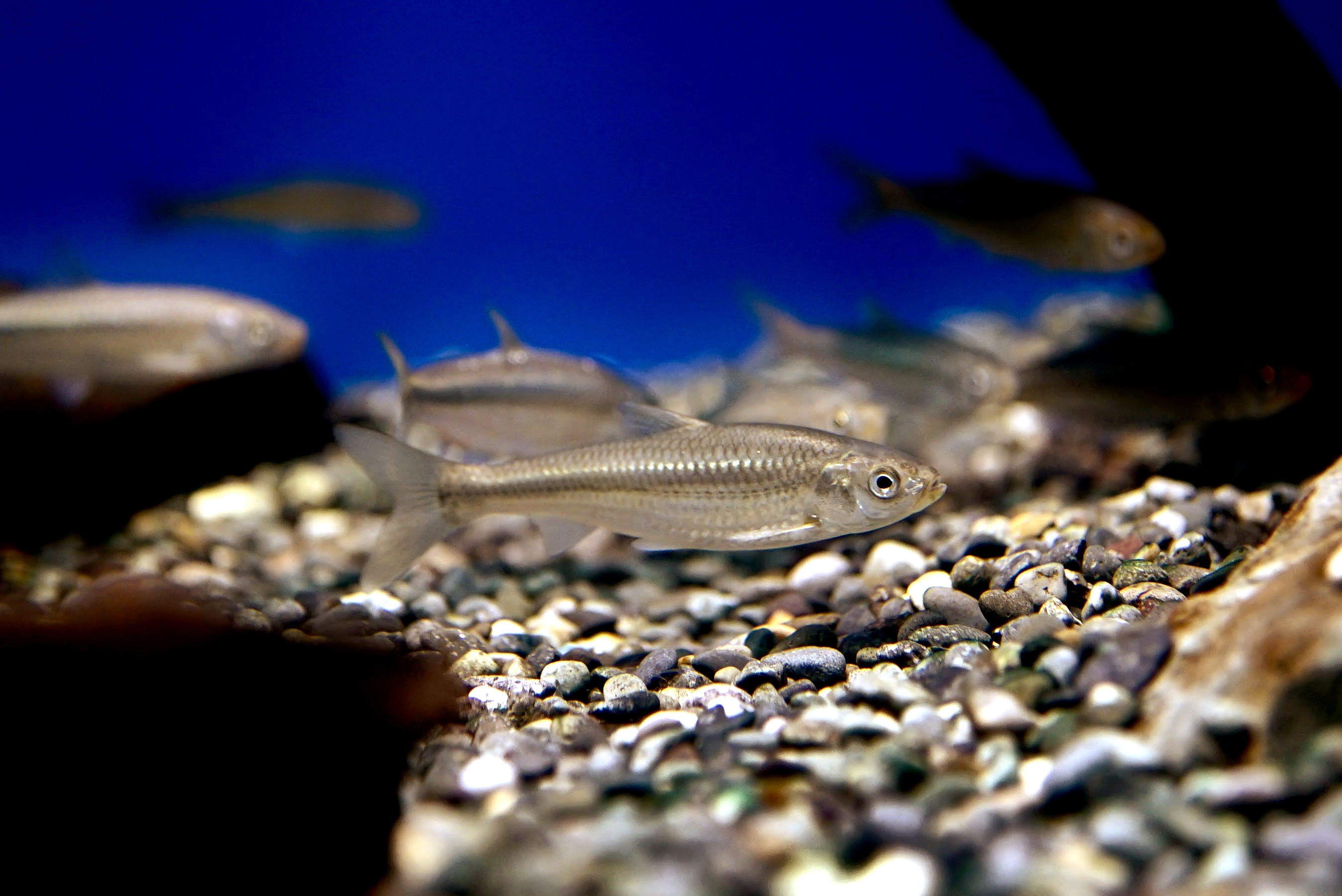 Gnathopogon caerulescens (Sauvage, 1883)